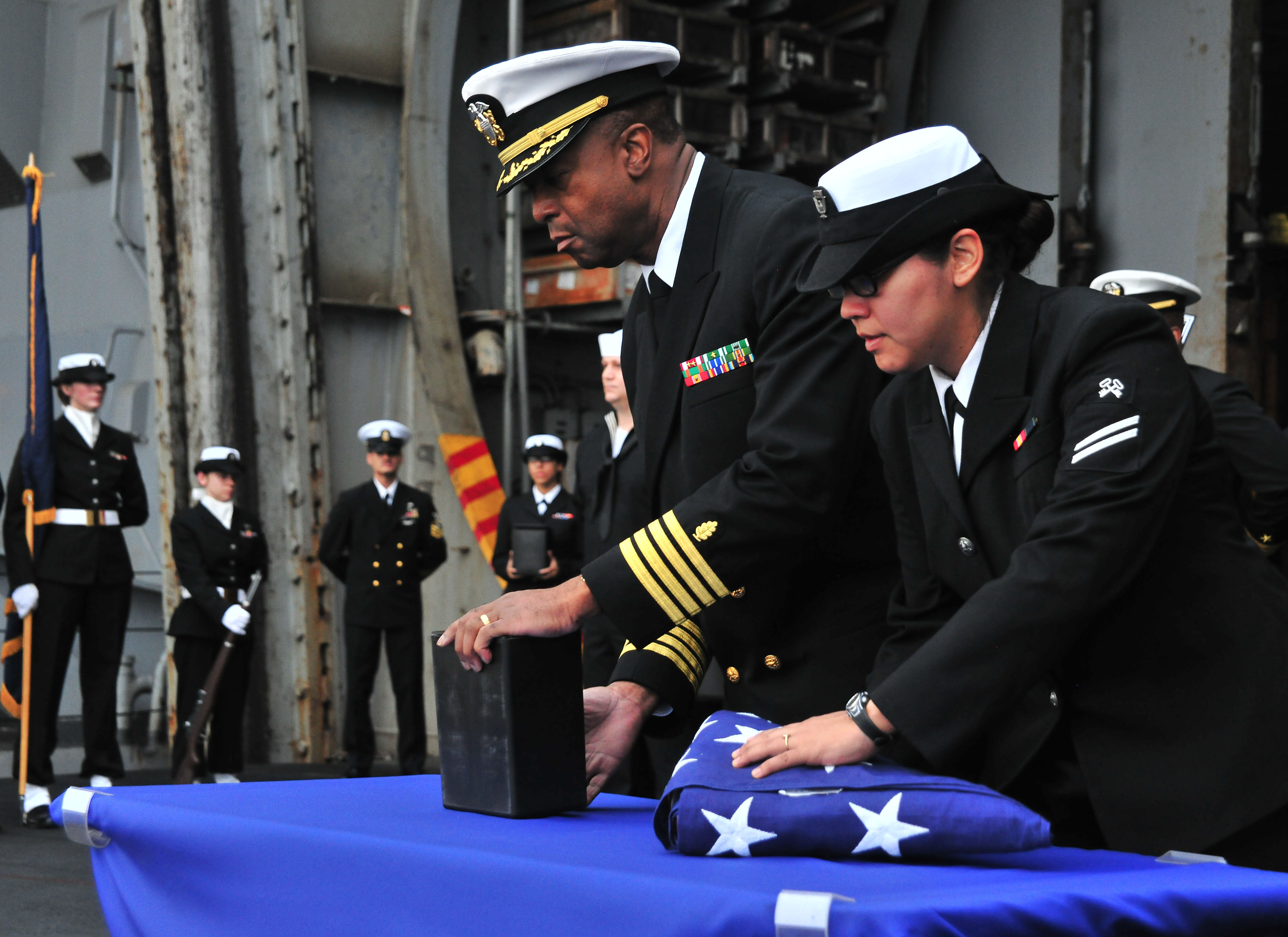 ARABIAN SEA (April 9, 2011) Sailors aboard the aircraft carrier USS Enterprise (CVN 65) prepare to cast ashes overboard during a burial at sea. Enterprise and Carrier Air Wing (CVW) 1 are conducting close-air support missions in the U.S. 5th Fleet area of responsibility. (U.S. Navy photo by Mass Communication Specialist Seaman Jesse L. Gonzalez/Released)